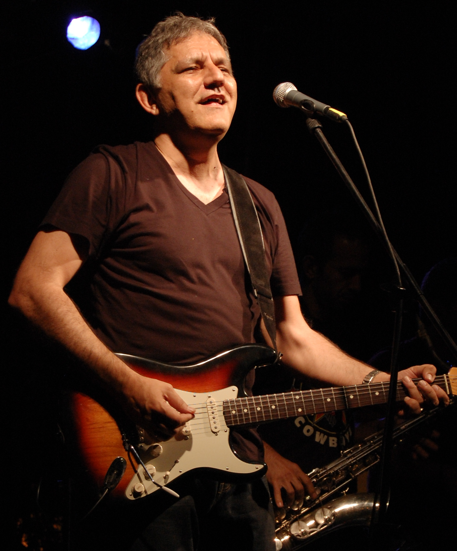 Singer and composer Nikos Portokaloglou live during World Music Day 2009 in Athens.